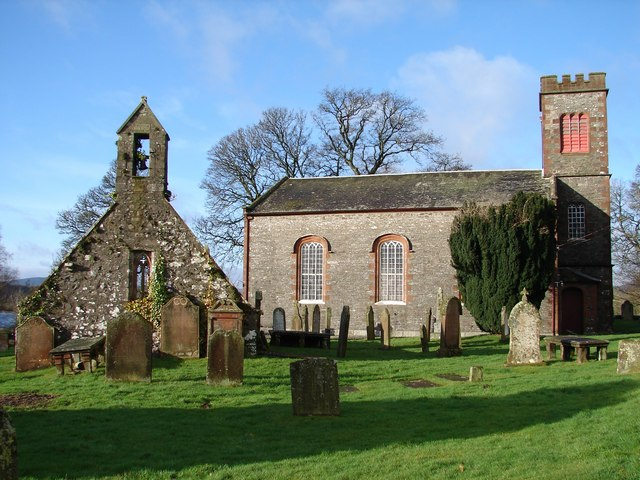 Parton Kirks and old graveyard. Parton Parish Church (1832) and roofless old church or kirk (1592), the old church contains the graves of the Murrays of Parton and James Clerk Maxwell.